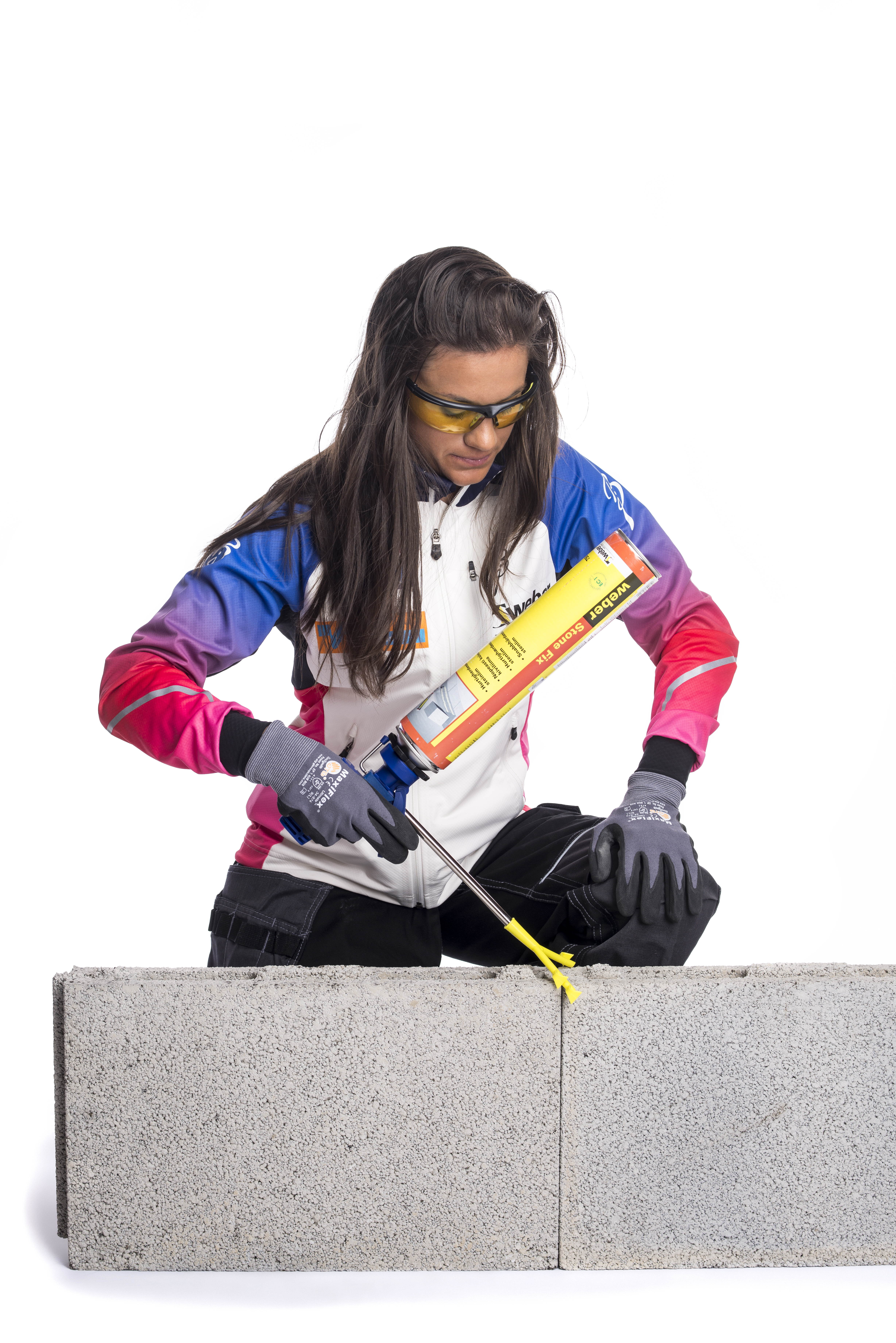 Norwegian cross-country skier Heidi Weng doing brickwork at a sponsor event.